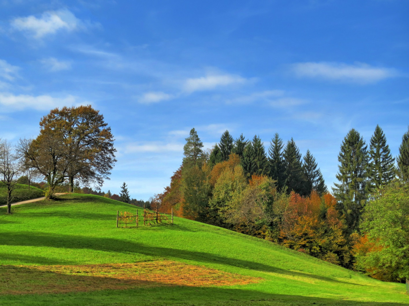 Final result without using proffesional equipment (Canon Ixus 125HS + online conversion tool)